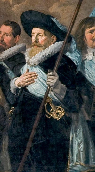 Quirijn Jansz Damast, detail of Officers and sub-alterns of the St George Civic Guard, Haarlem